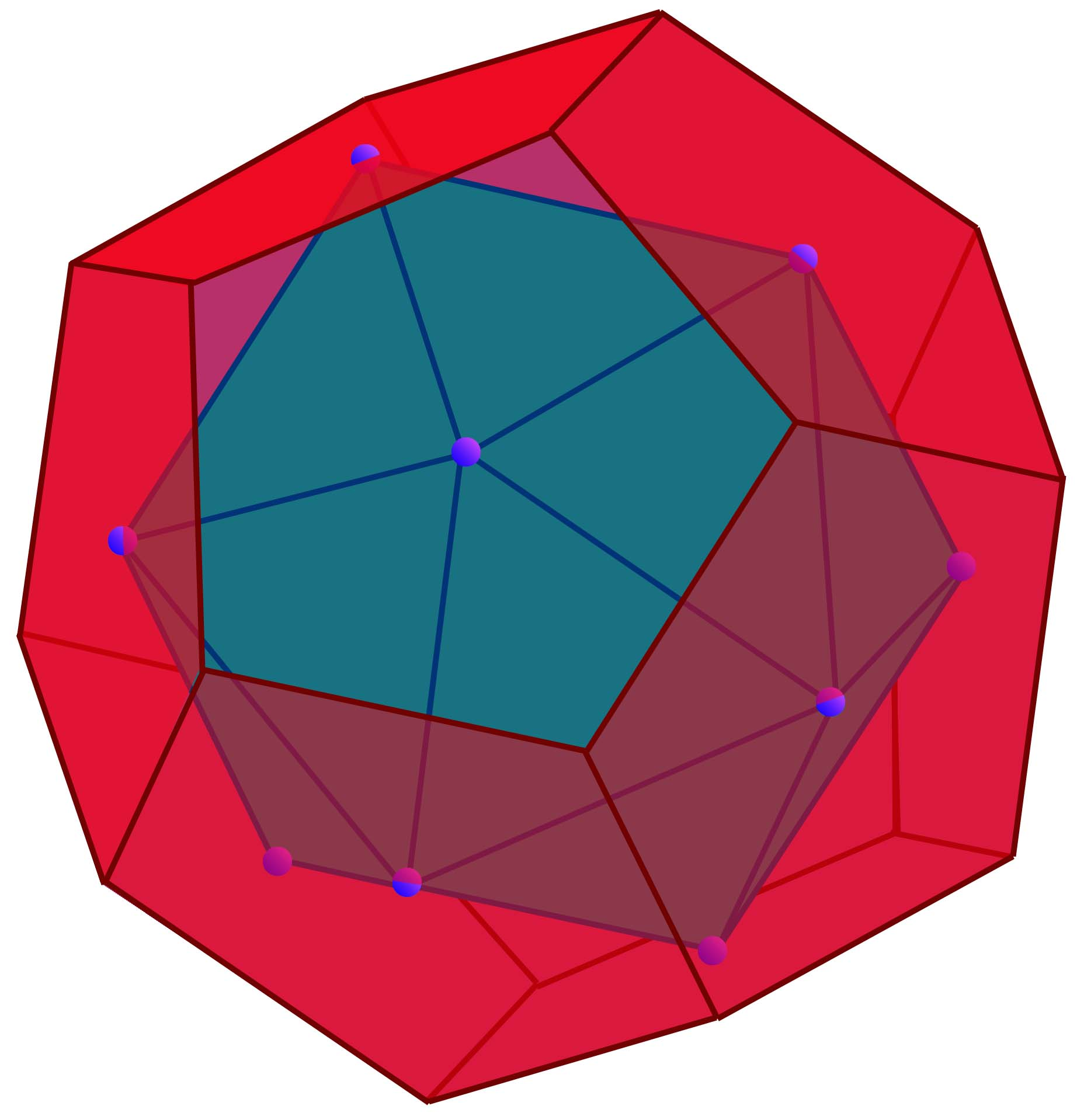 Dual of an icosahedron